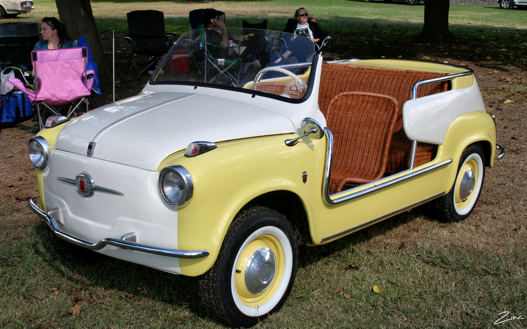 1959 Fiat Jolly - yellow white - fvl